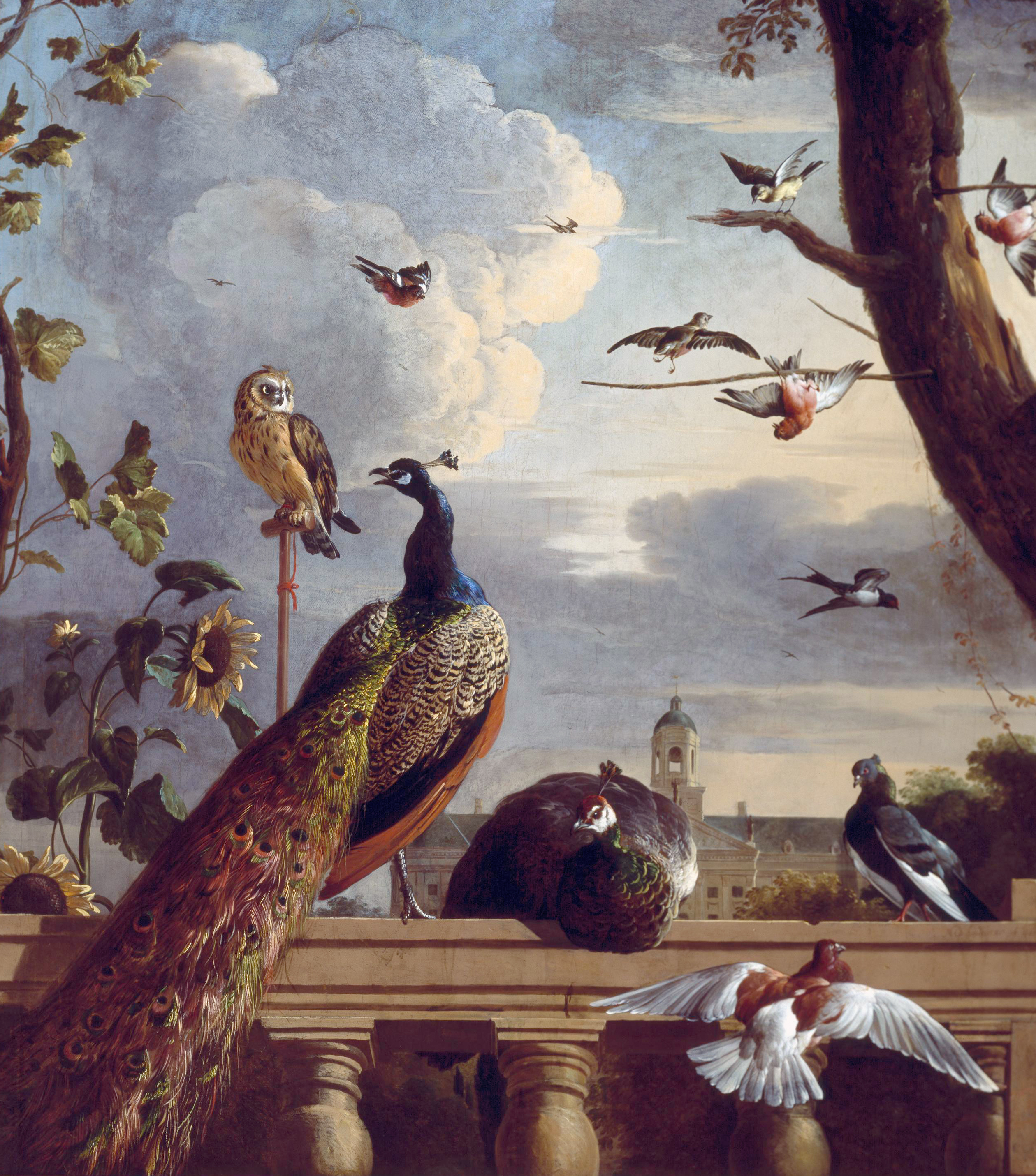 Birds near a balustrade, in the background the Amsterdam Town hall oil on canvas 183.5 x 162 cm signed b.r.: M D´hondecoeter ft. 1670